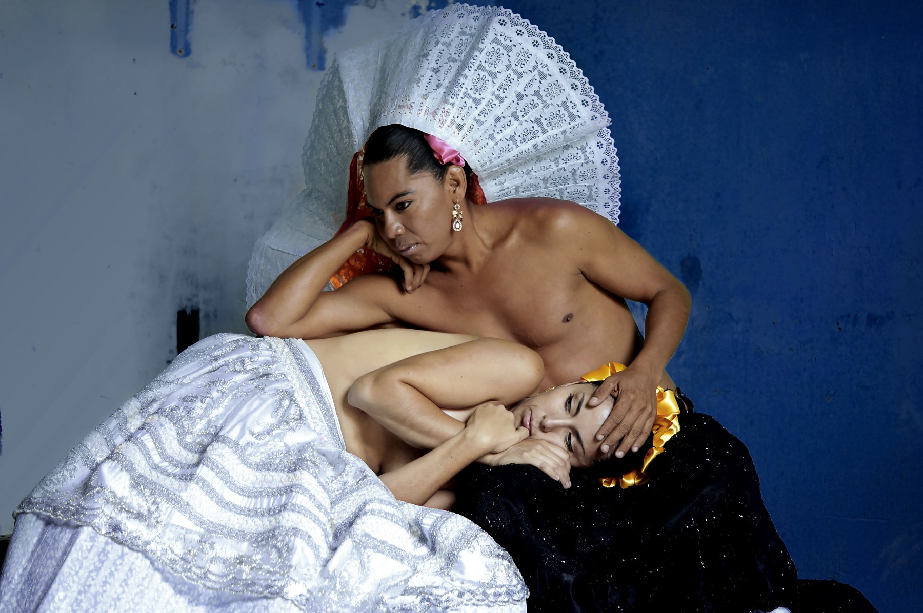 Lukas Avendaño. Zapotec Muxe performer from México.